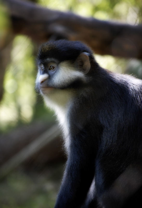 A red-tailed monkey at a zoo